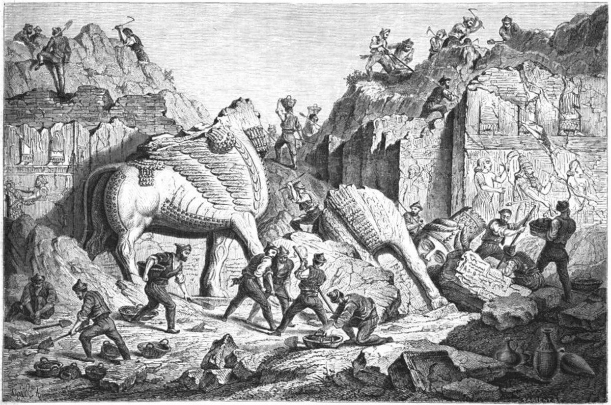 Chaldean excavating in Khorsabad (Nineveh).